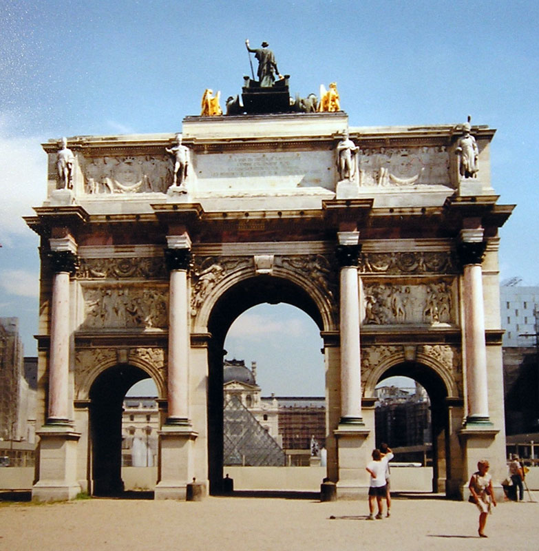 Arc de Triomphe du Carrousel, Paris